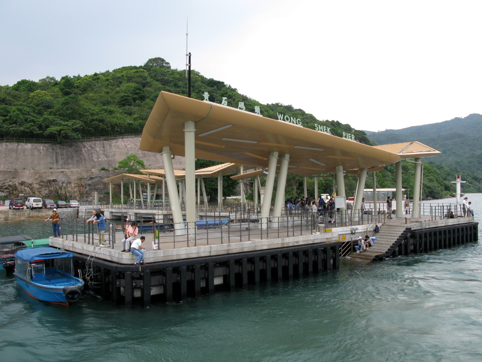 Wong Shek Pier on Long Harbour in the north-eastern New Territories of Hong Kong. It is seen after redevelopment in 2006. For more information, see Wikipedia article Wong Shek Pier.